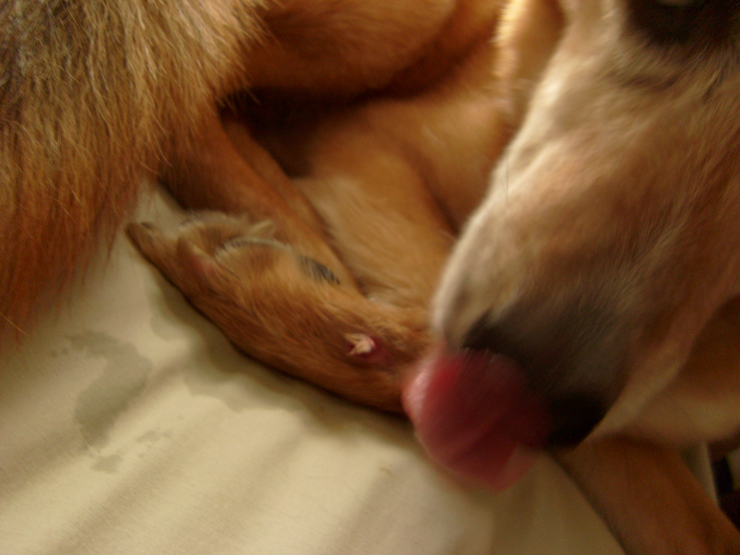 A mixed breed dog called Oscar, licking a wound in his paw caused by a broken window.